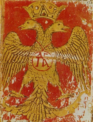 The Byzantine double-headed eagle with the sympilema (the family cypher) of the Palaiologos dynasty, from Demetrios Palaiologos' personal bible